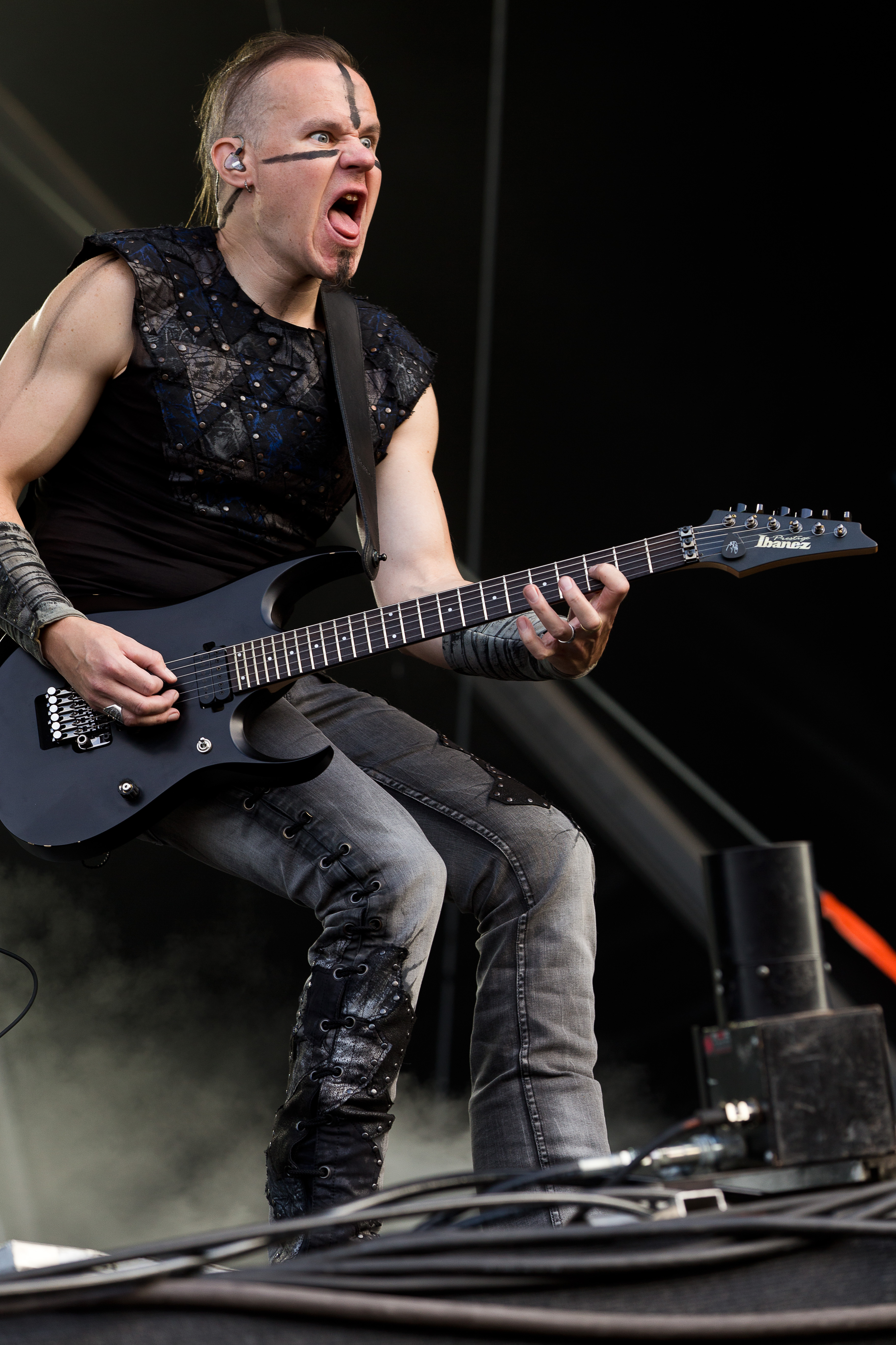 The Finnish folk metal band Ensiferum at the Rockharz Open Air 2016 in Ballenstedt/Germany.